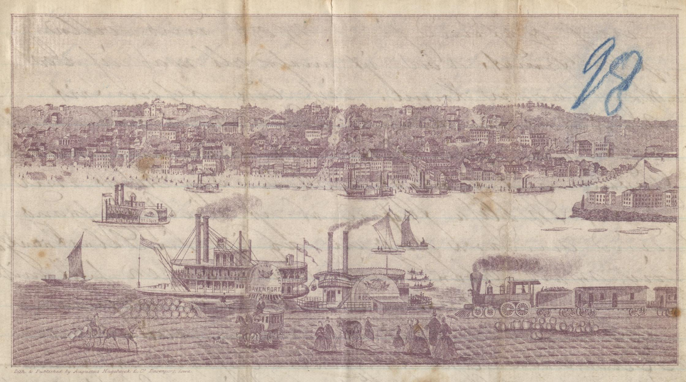 Litho of Davenport Iowa